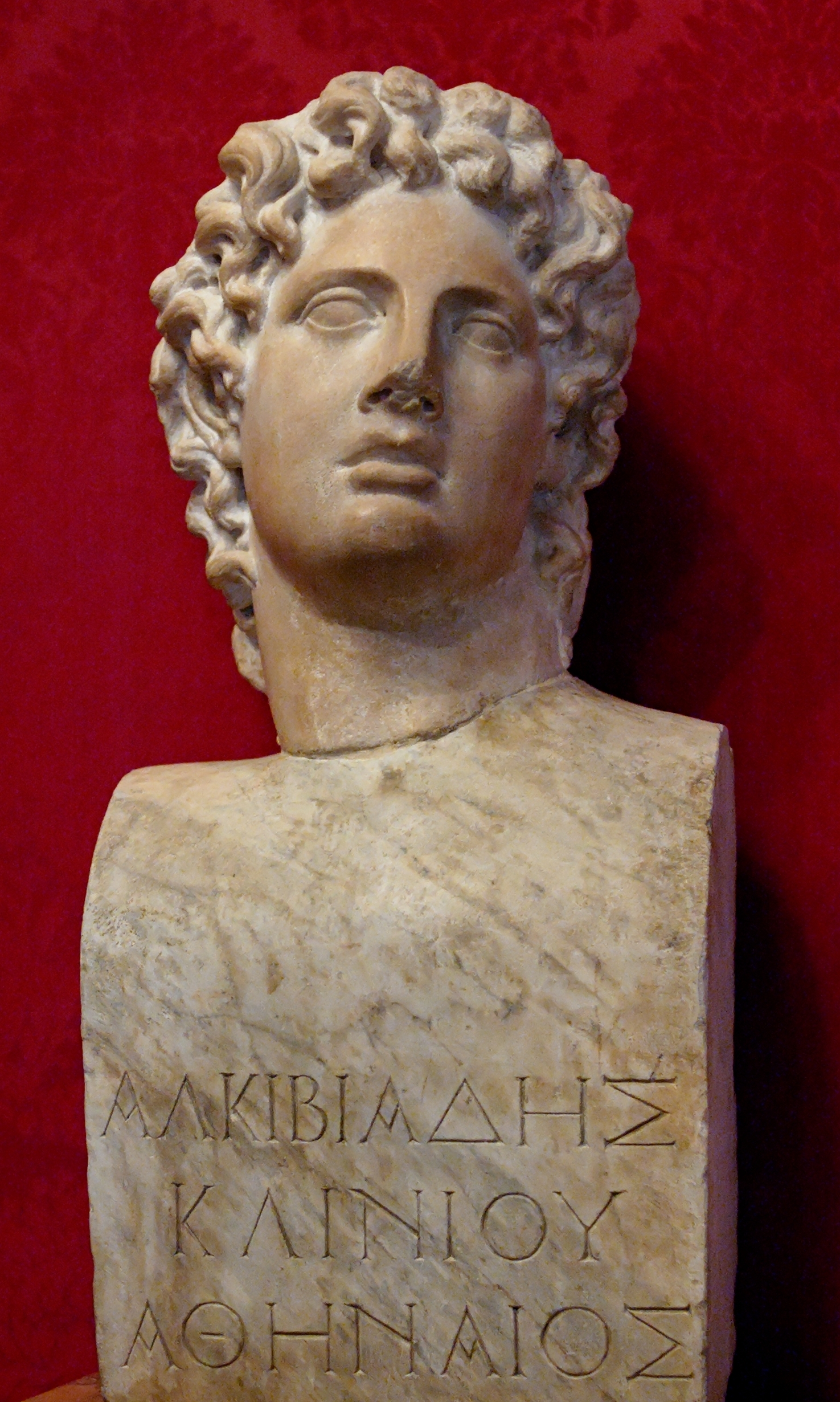 So-called “Alcibiades”, ideal male portrait. Roman copy after a Greek original of the Late Classical period; the hermaic pillar and the inscription (“Alcibiades, son of Cleinias, Athenian”) are modern additions.